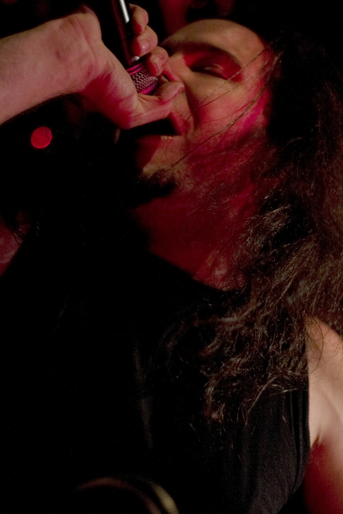 Paul "Ablaze" Zinay from Blackguard live at Paganfest 2009 at Seattle.